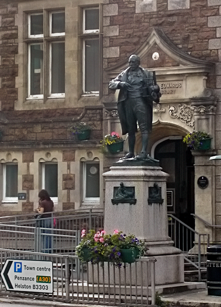 Statue of Richard Trevithick in front of the Public Library at Camborne, Cornwall, United Kingdom. Author Chris Angove June 2006